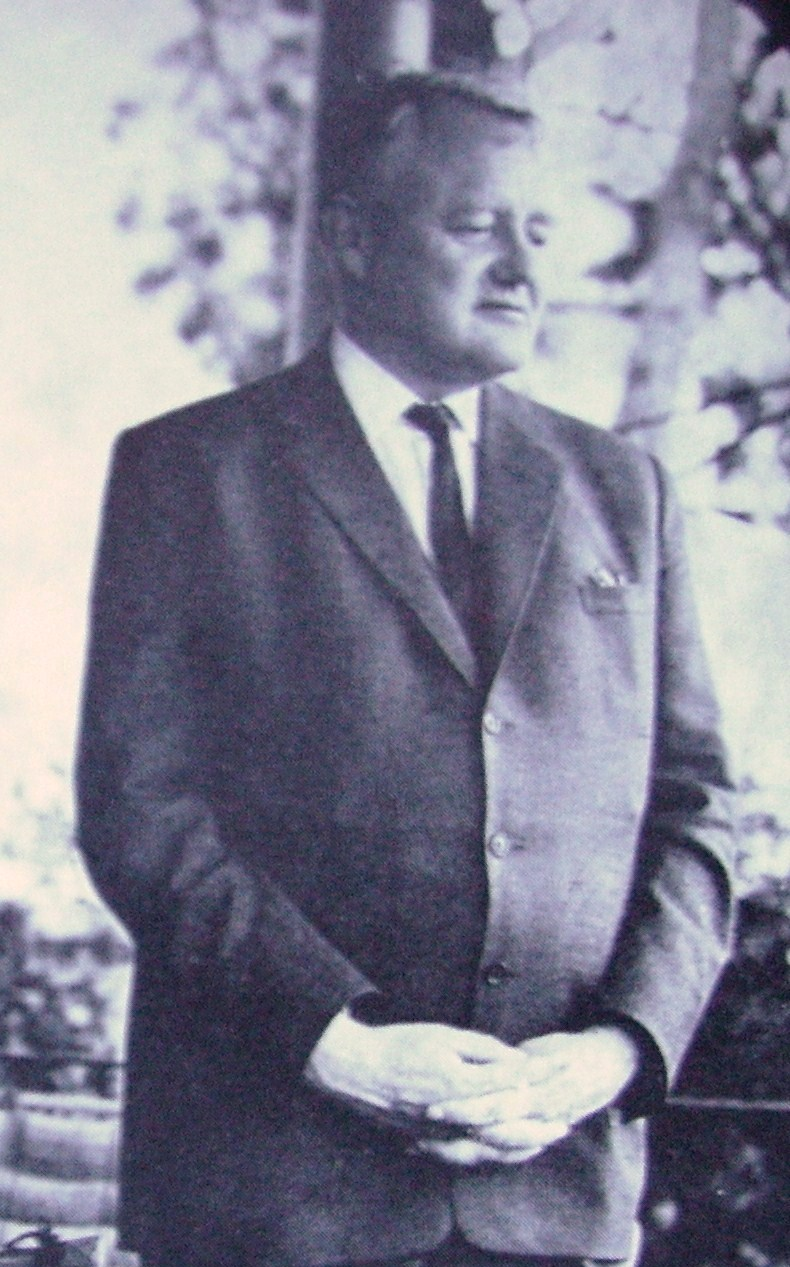 Picture of Ingmar Hedenius and Herbert Tingsten, Swedish intellectuals